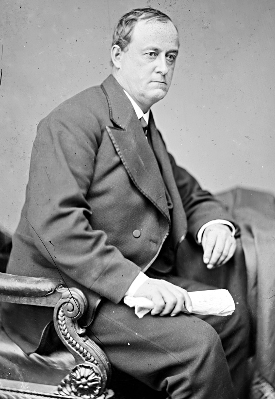 David Rea, US Representative from Missouri